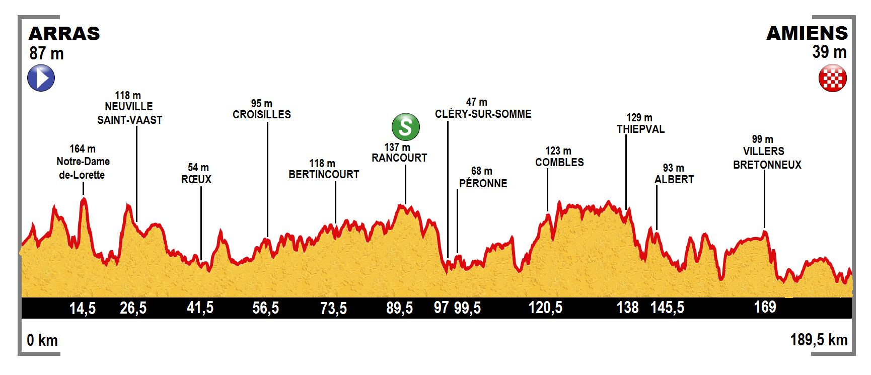 Profile of the 5th stage of the Tour de France 2015